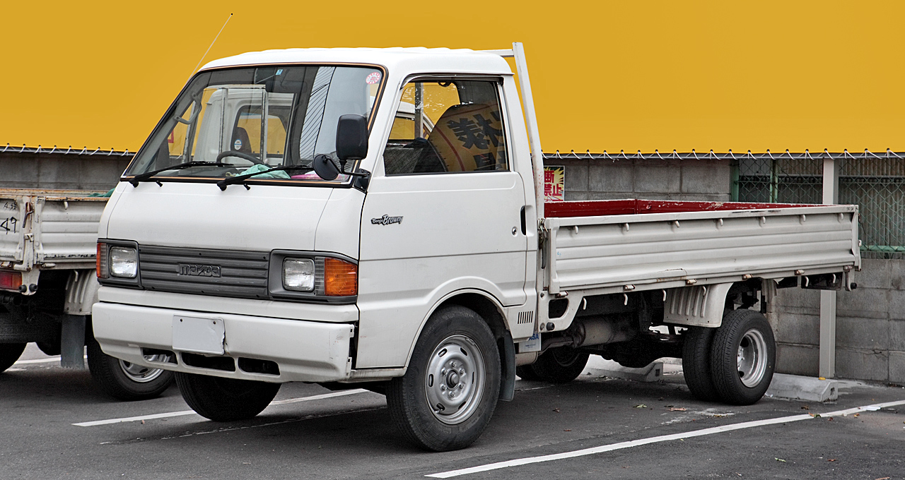 Mazda Bongo Brawny Truck ( Type SD )